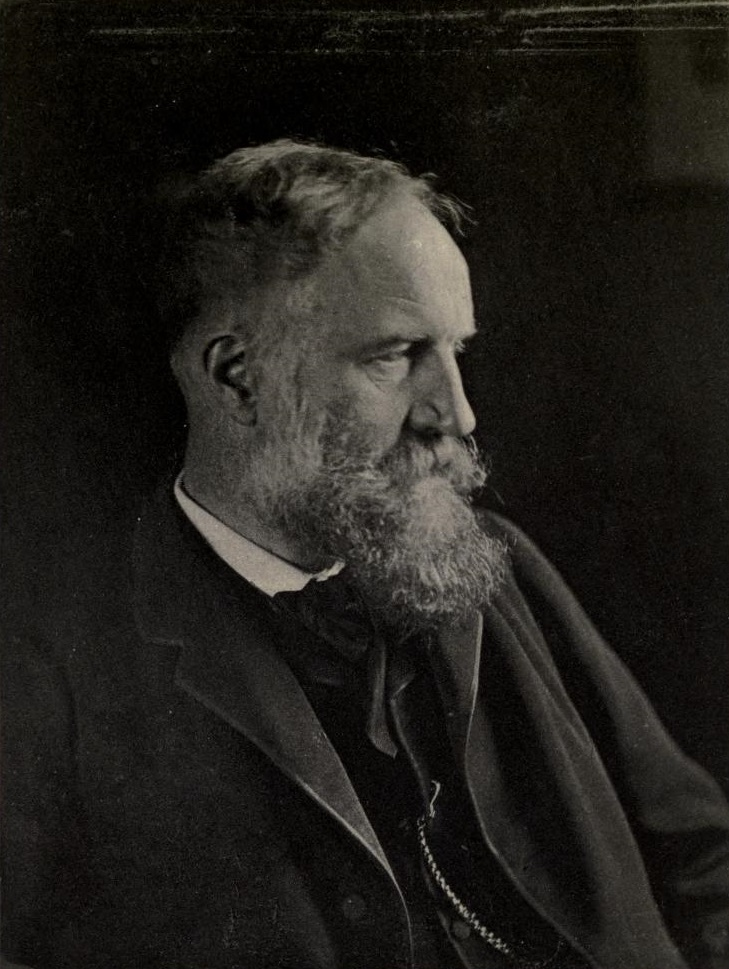 Picture of Philip Gilbert Hamerton